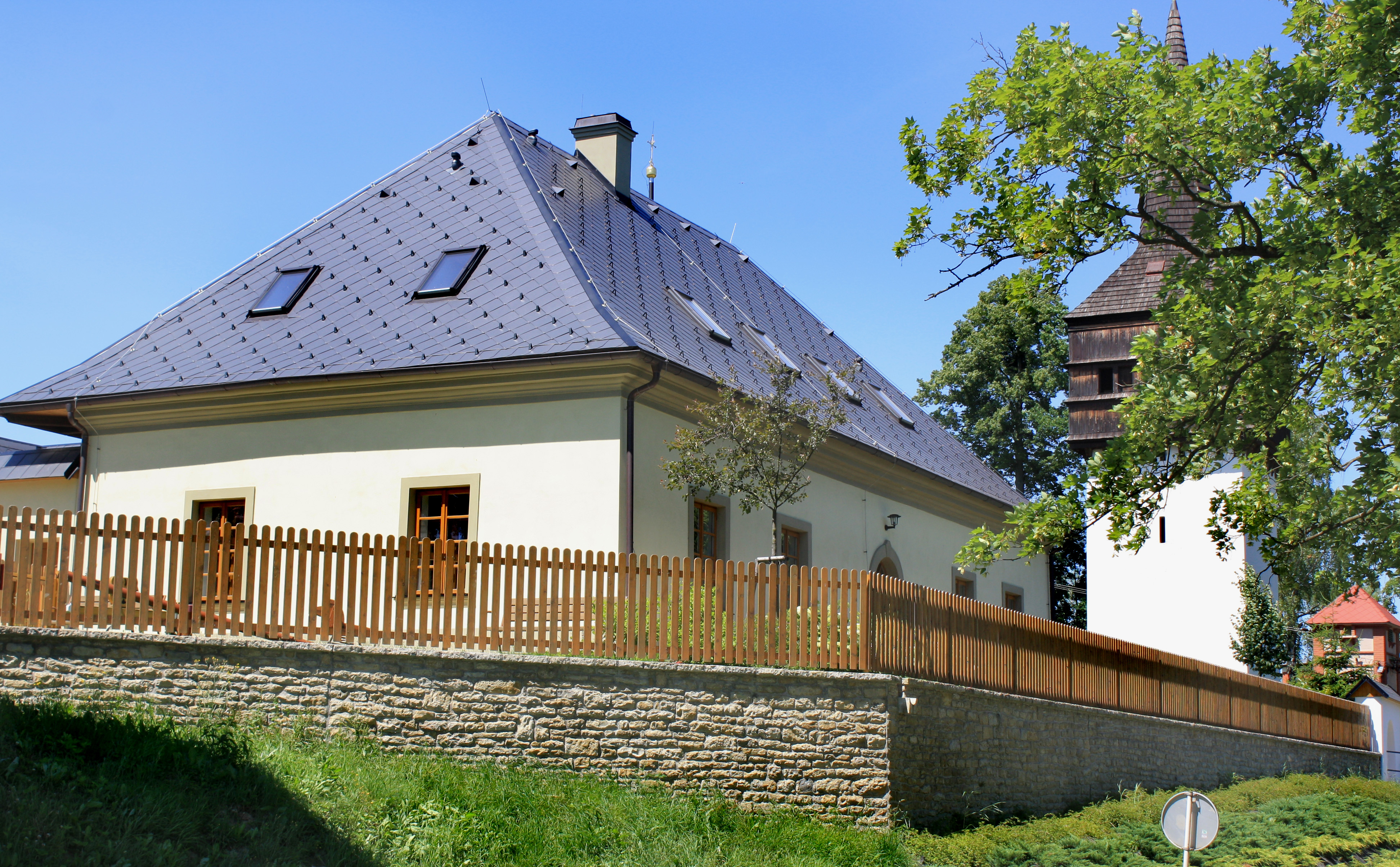 Presbytery in Trstěnice, Czech Republic